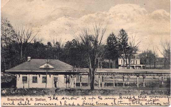 Postcard picture of Branchville Railroad Station, Connecticut, USA, ca. 1900